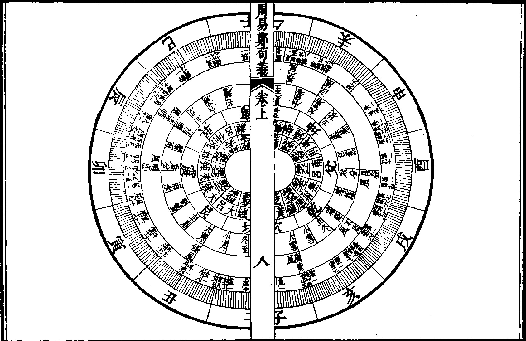 Illustration from Zhou Yi Zheng Xun Yi. 中文（中国大陆）: 《周易郑荀义》插图